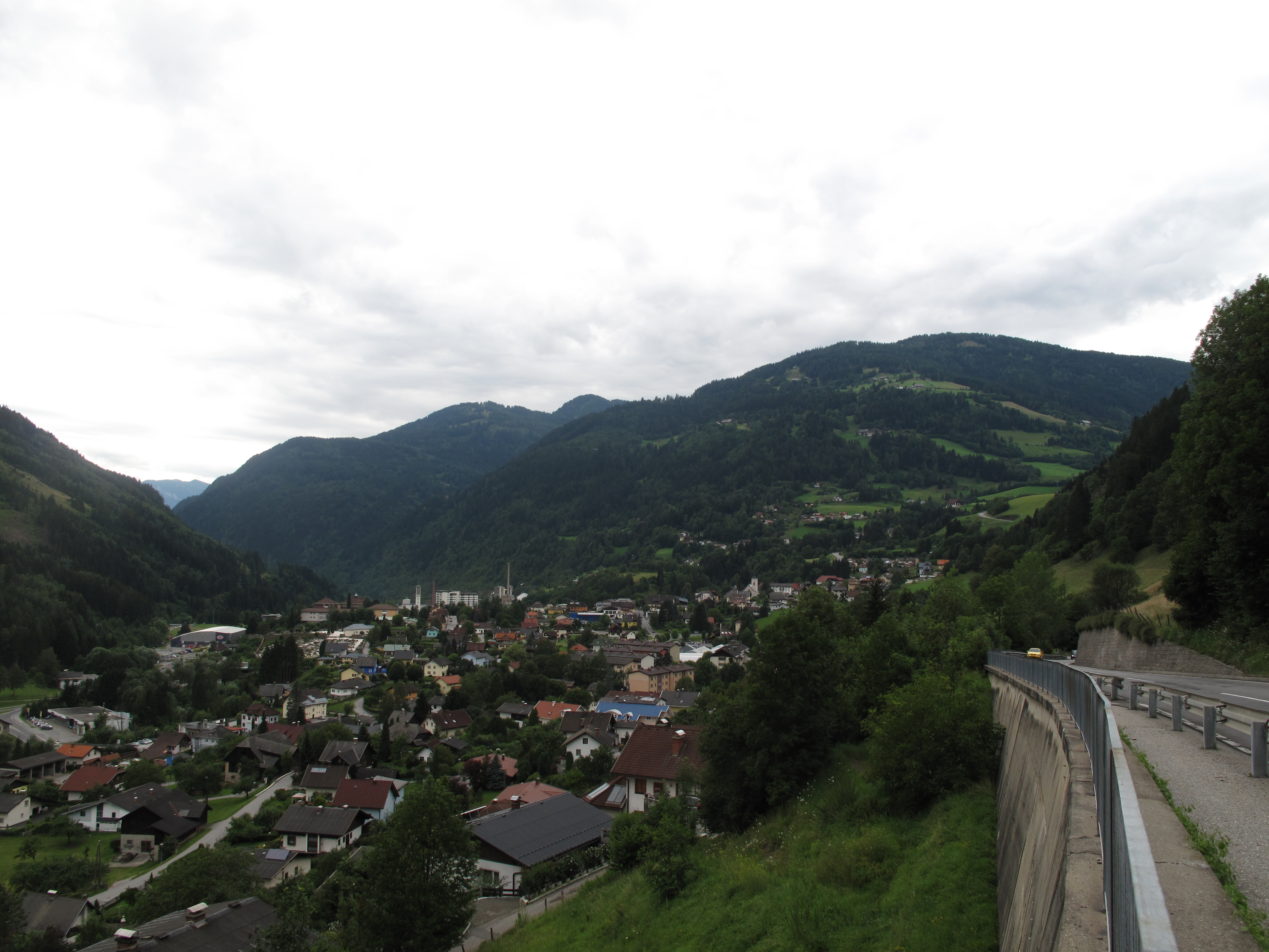 Radenthein, view to the town